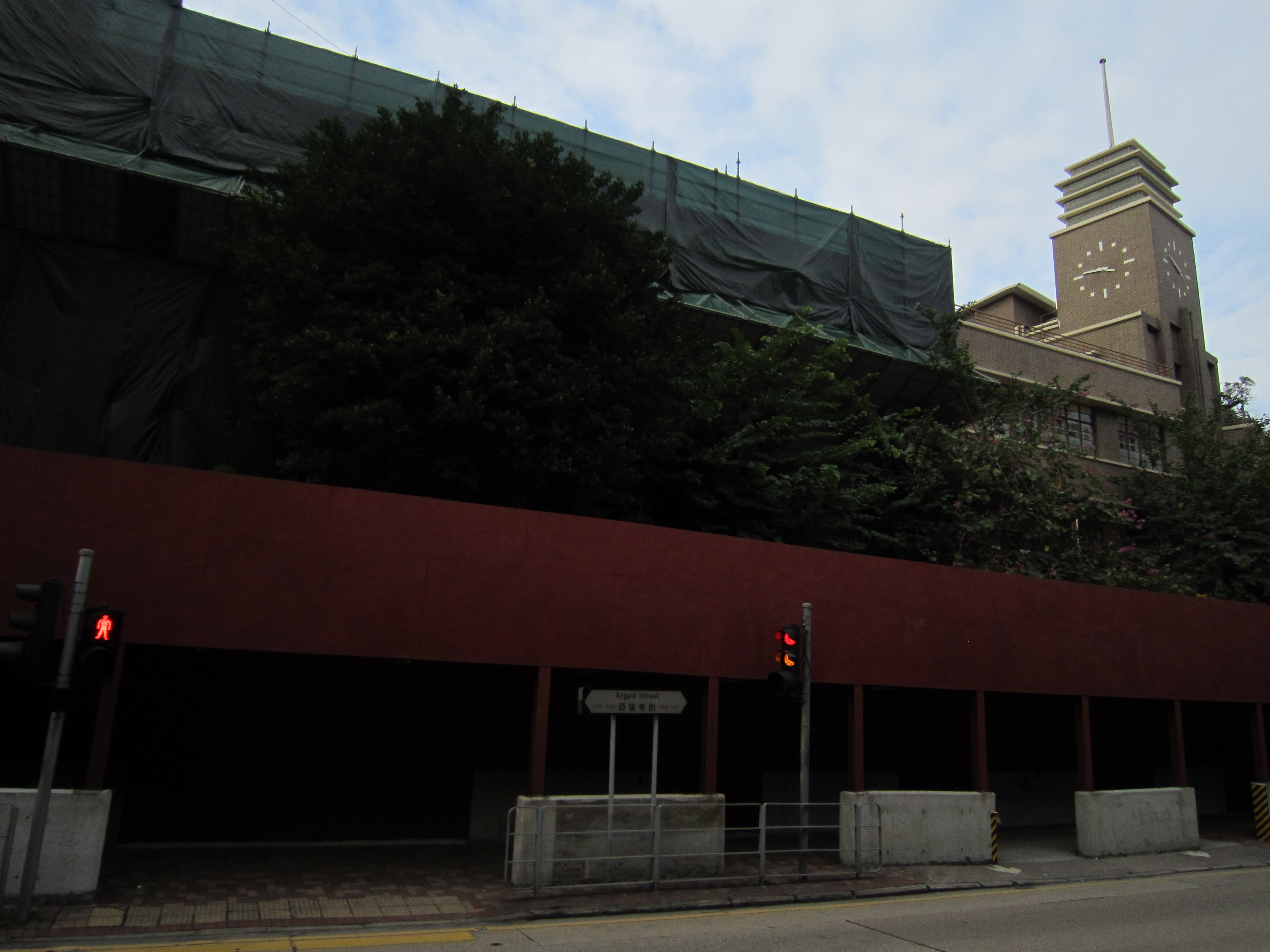 CLP Old Headquarter under construction work